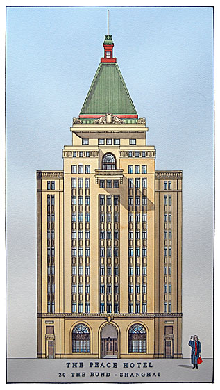 Peace Hotel Shanghai - Simon Fieldhouse